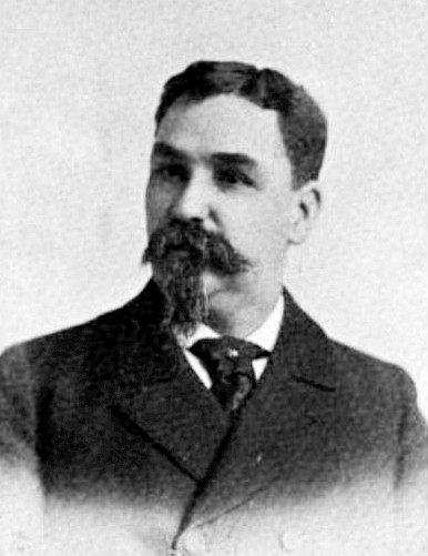 Photo of Boston W. Smith. Smith worked for the American Baptist Publication Society and was one of the key persons regarding the Society's railroad chapel cars.